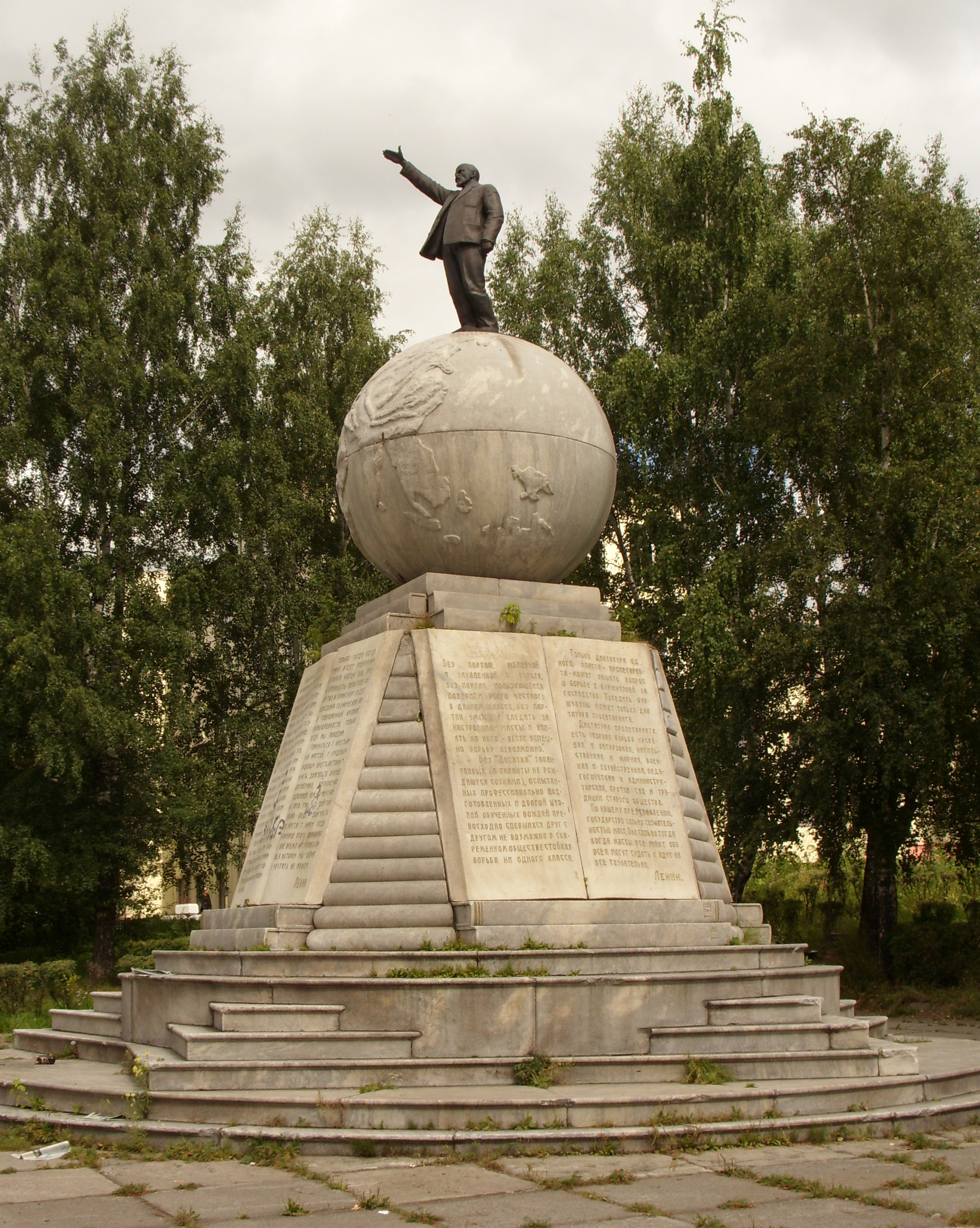 Lenin's monument in Nizhny Tagil.